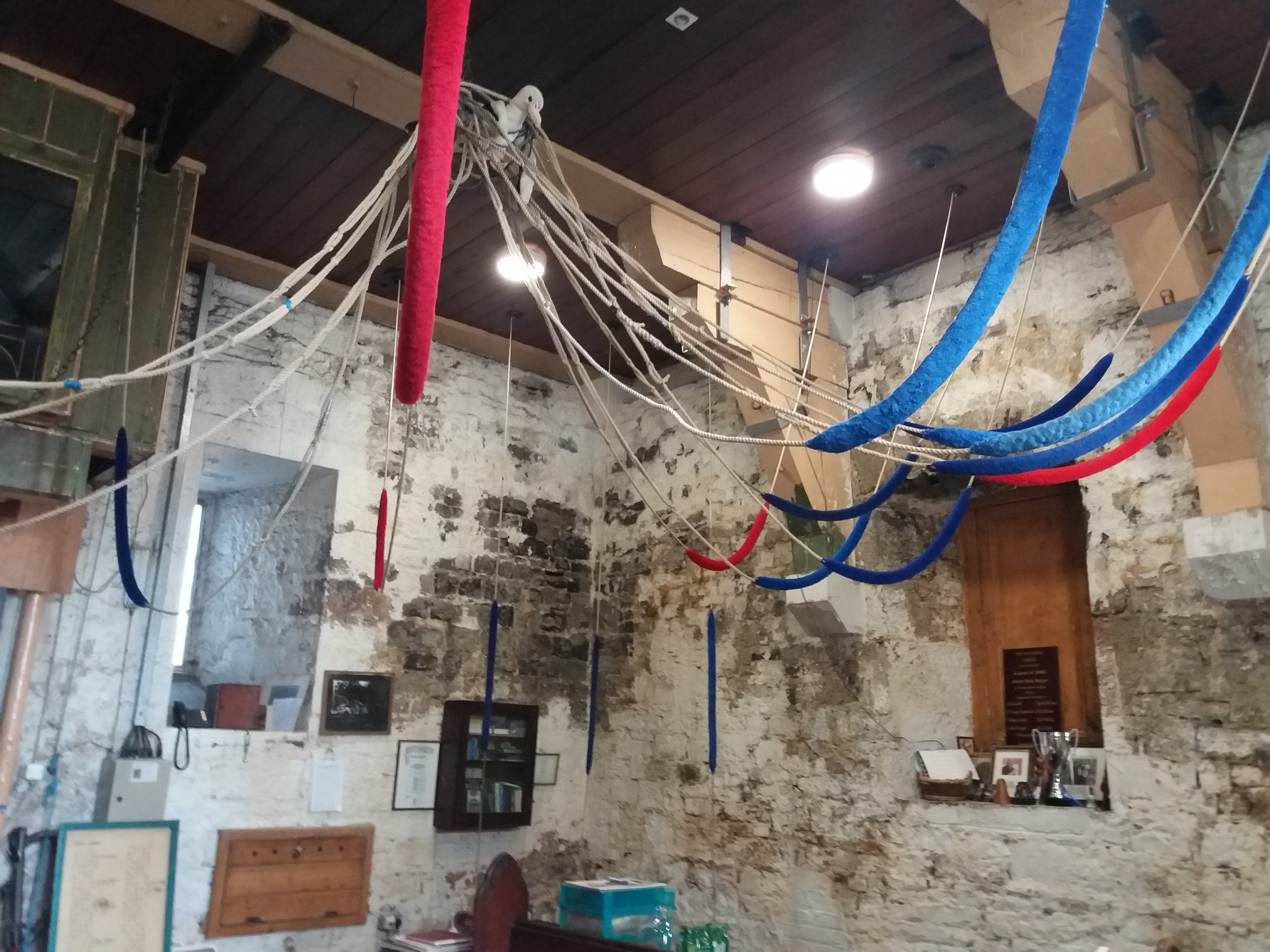 A view of the Cathedral ringing room, showing the impressive number of ropes and sallies.